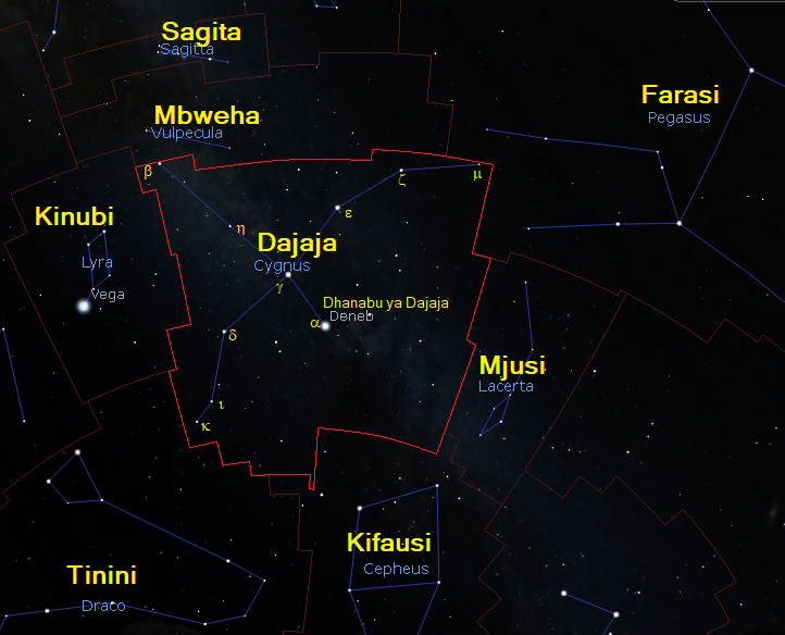 Constellation Cygnus as seen from Tanzania, Swahili labelled Kiswahili: Kundinyota Dajaja (Cygnus) jinsi inavyoonekana kutoka Tanzania, majina kwa Kiswahili